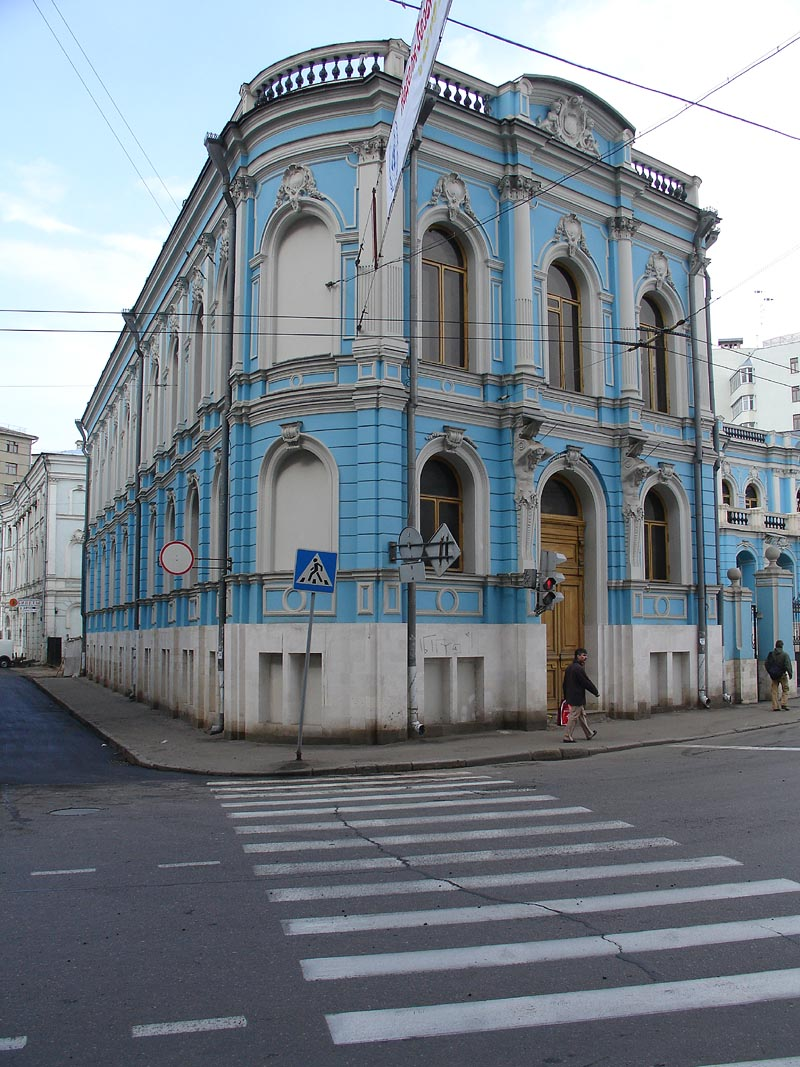 Chertkov Palace, Myasnitskaya Street, Moscow